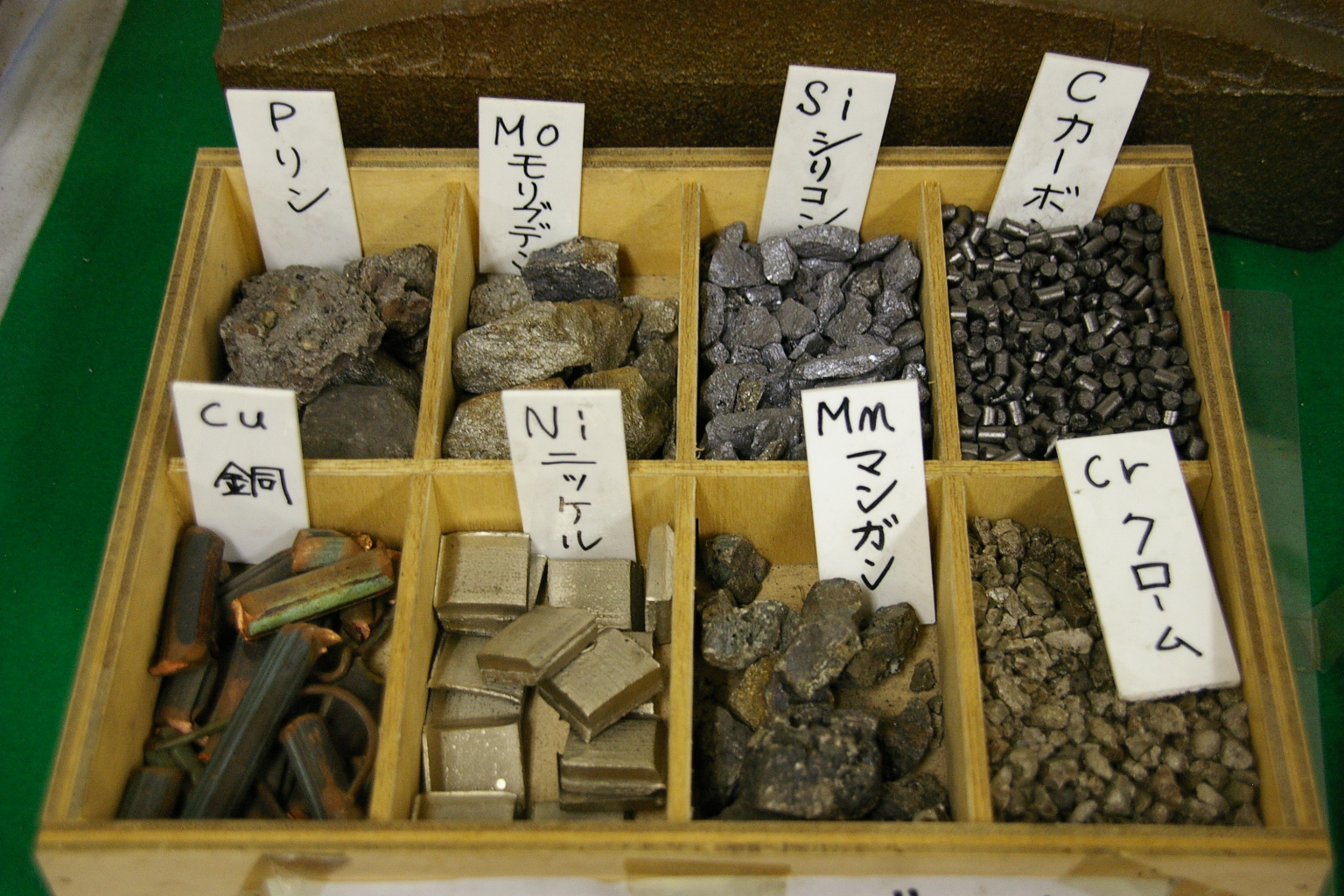 Brake shoe metal specimen.